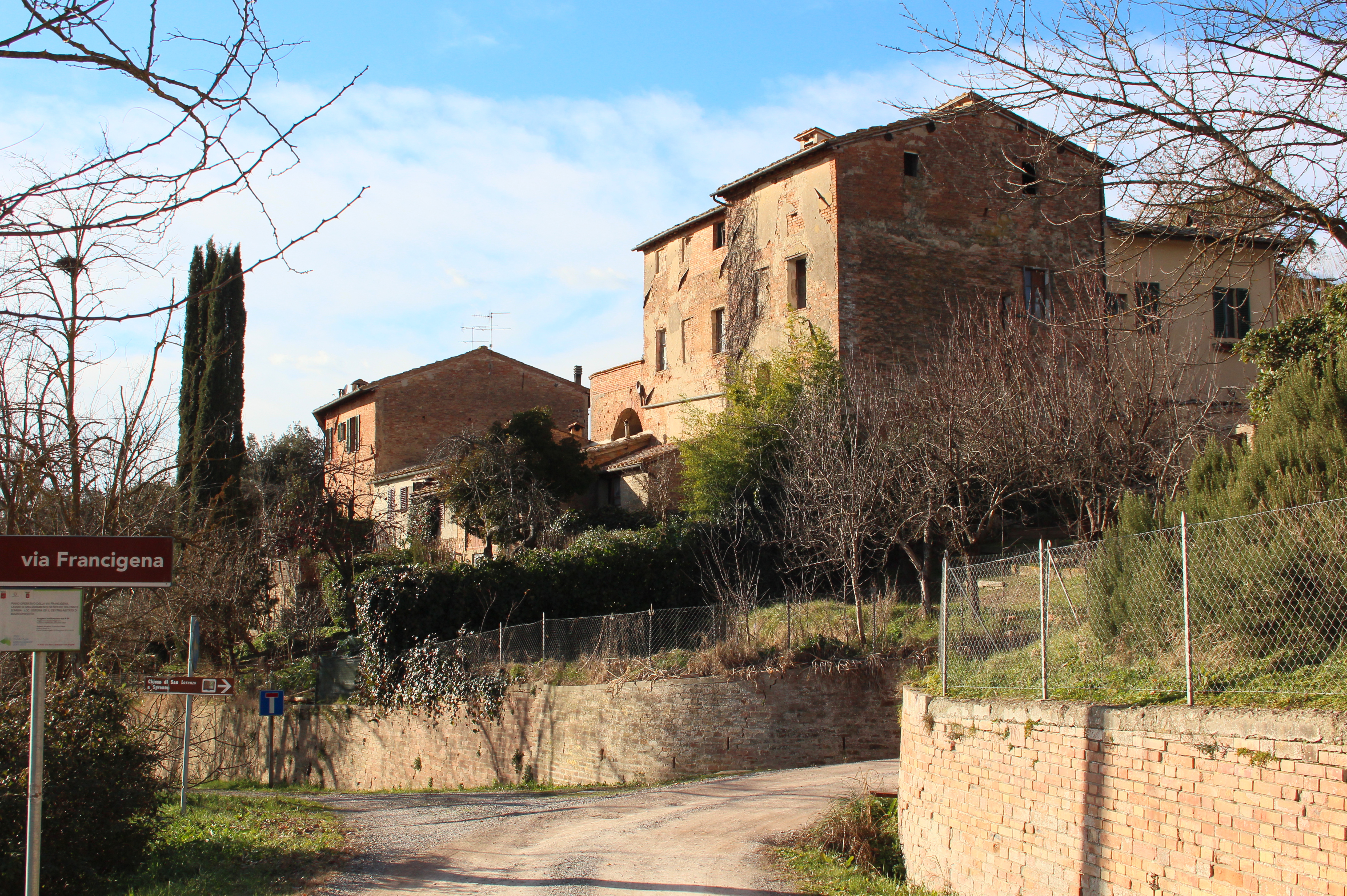 Serravalle, hamlet of Buonconvento, Province of Siena, Tuscany, Italy